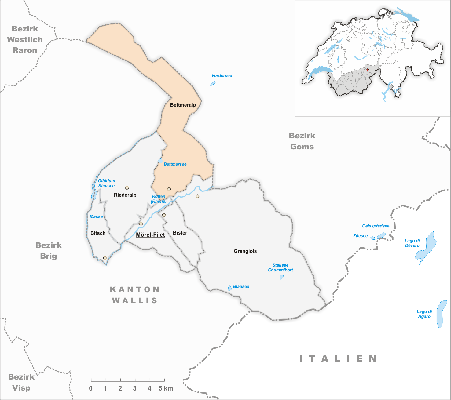 Municipality Bettmeralp